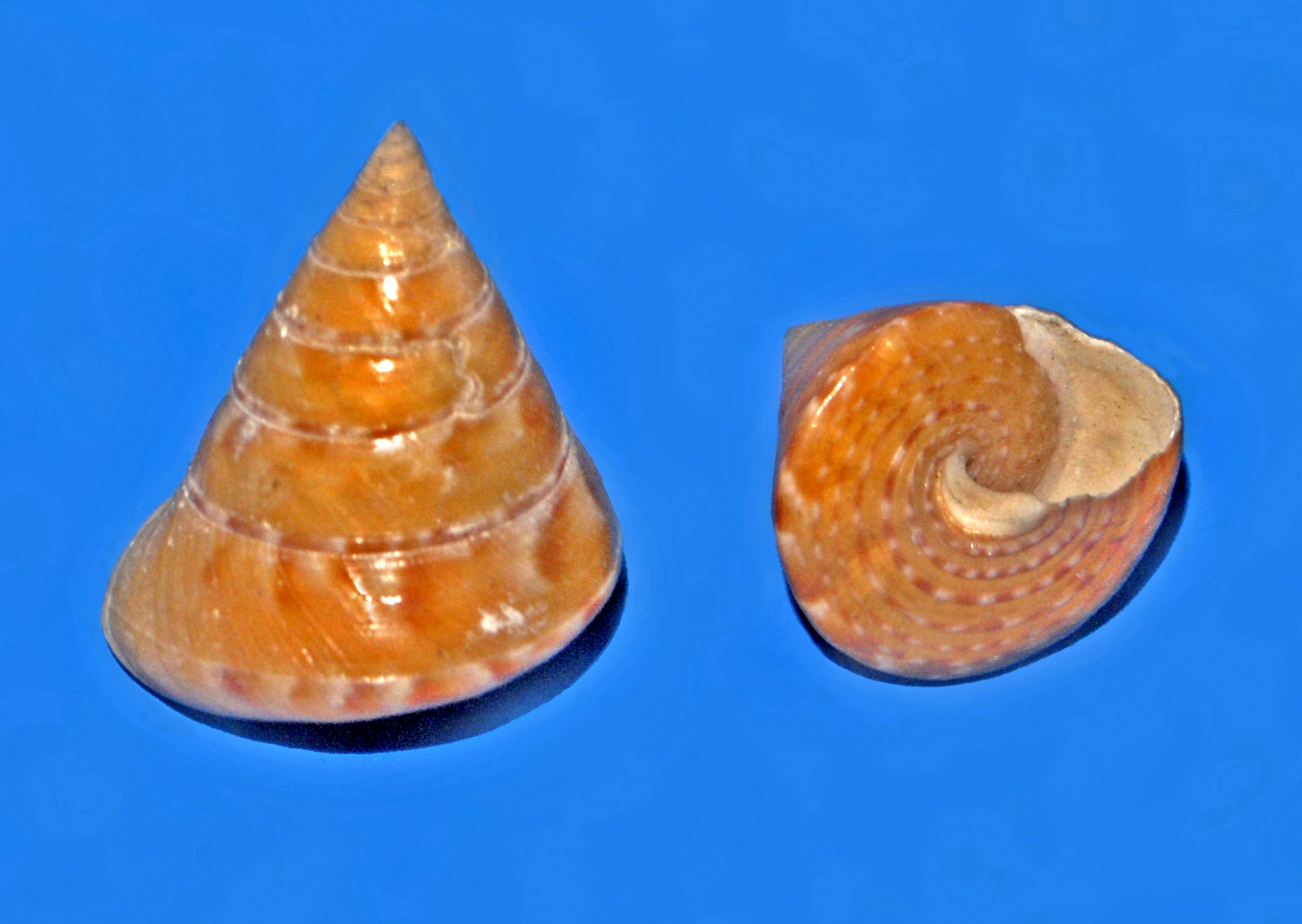 Shells of Calliostoma conulus from Sicily, on display at the Museo Civico di Storia Naturale di Milano